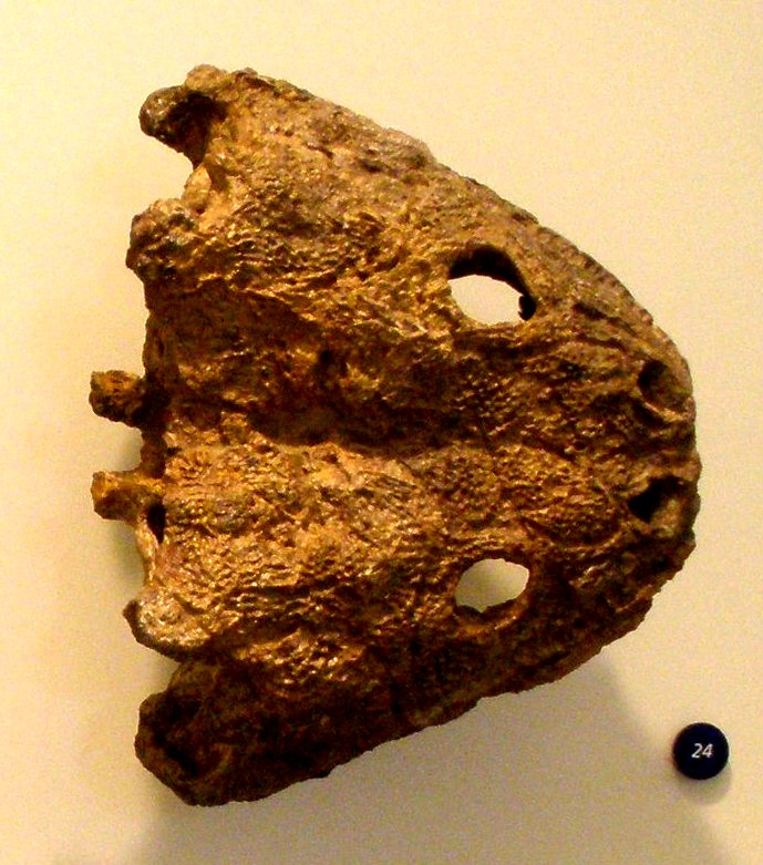 Fossil of Pelorocephalus tunuyaensis, a fossil amphibian DateApril 2008Sourcetook the foto on the "American Museum of Natural History" in New YorkAuthorGhedoghedoPermission (Reusing this file)